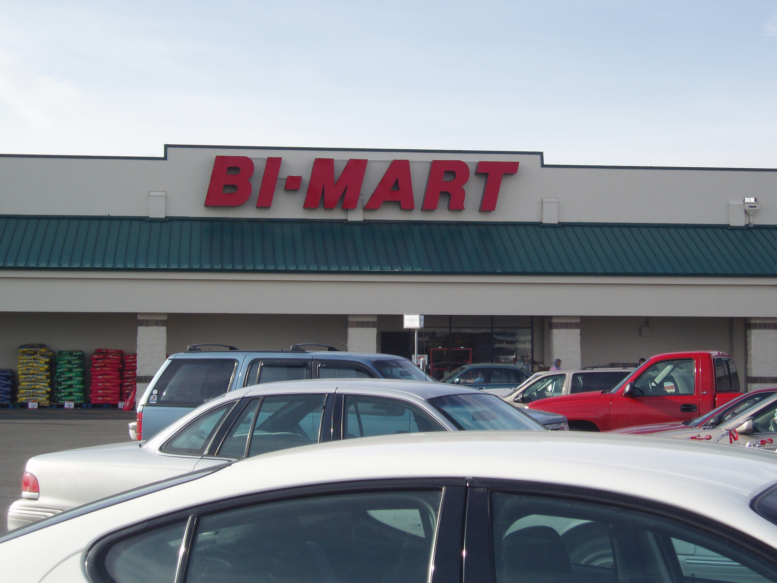 Bi-Mart located in Ontario, picture taken in 2006